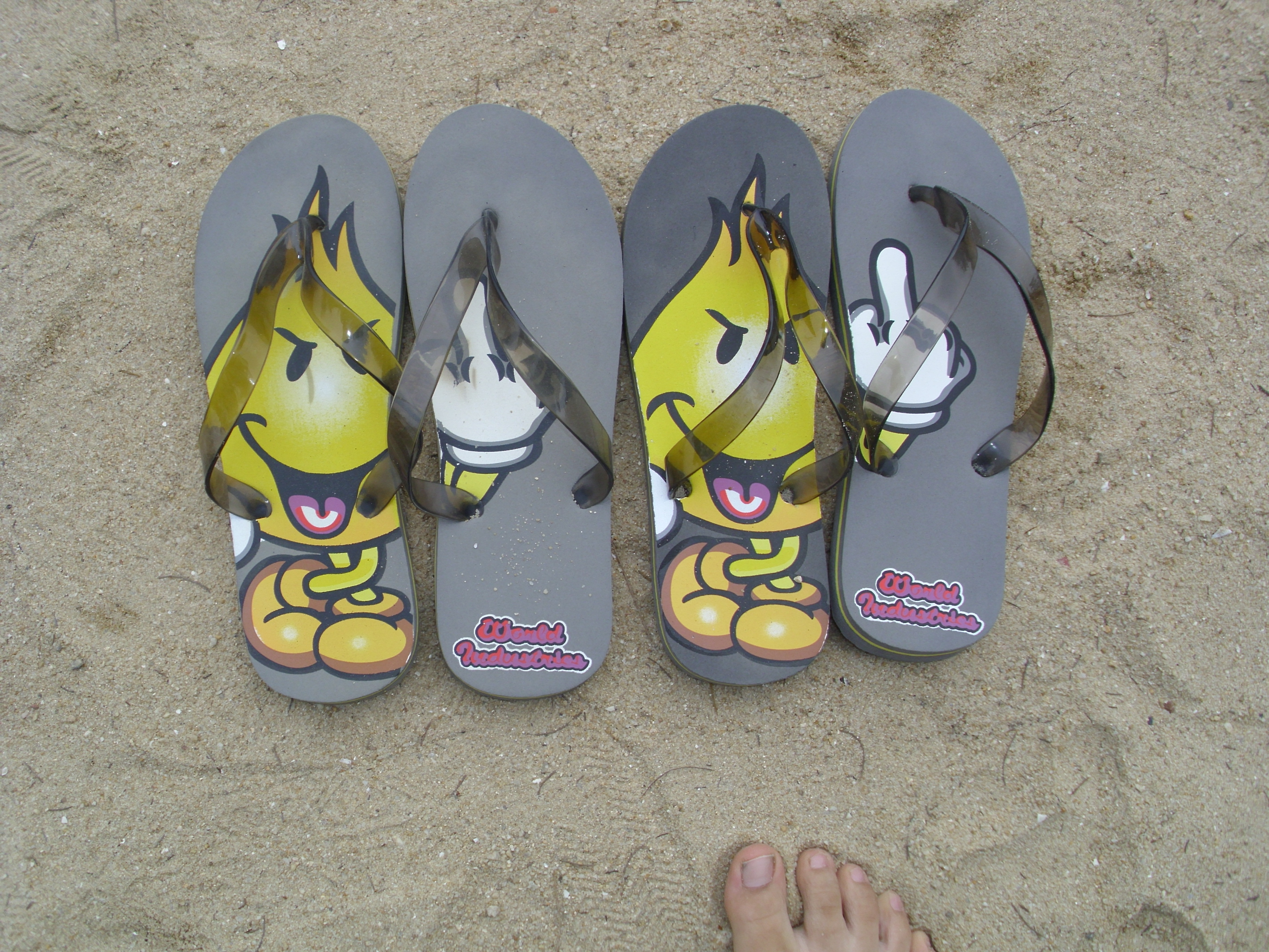 The two pair World Industries Flame boy flip-flops in beach in Mui Wo, Lantau Island